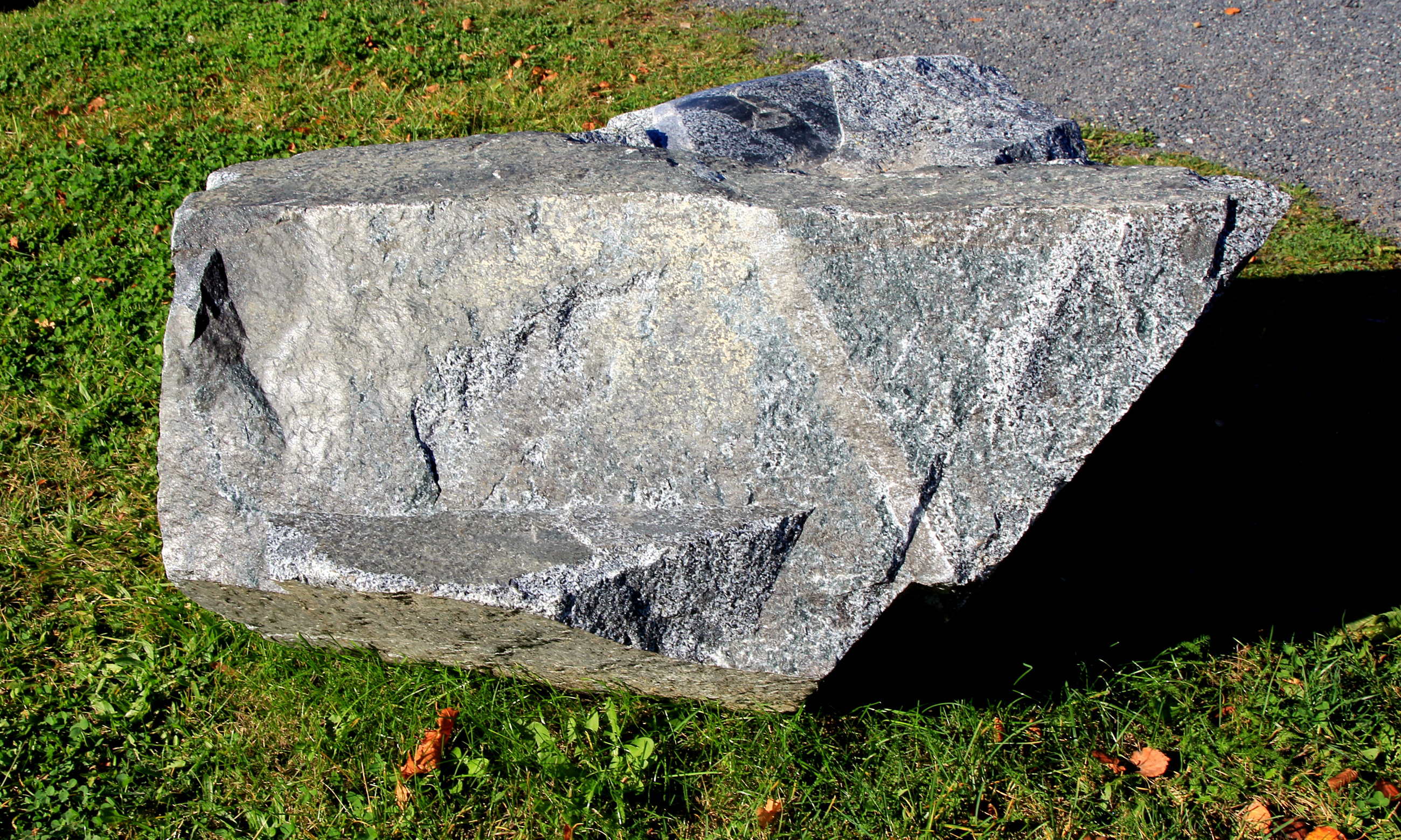 The rock granodiorite from quarry near of the Czech village Mrač exhibited in small geopark “Geologická zahrada” in Dolní Počernice, Prague, Czech Republic